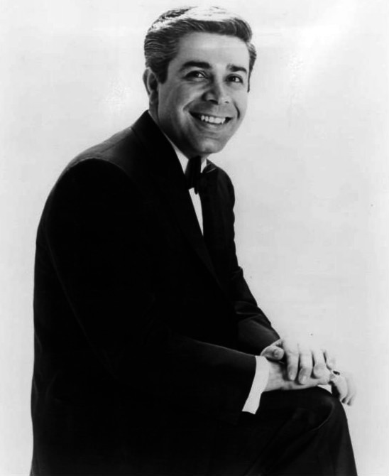 Publicity photo of singer Jerry Vale.